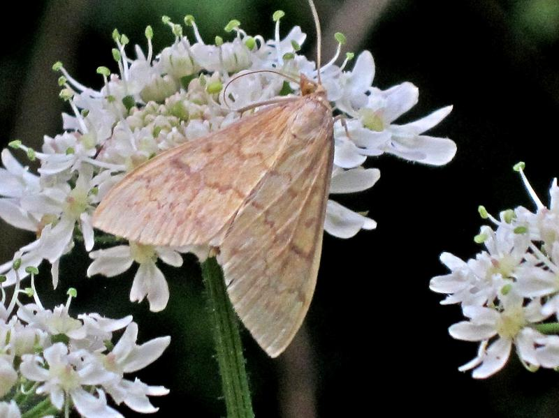 Ostrinia nubilalis (European corn borer), Arnhem, the Netherlands